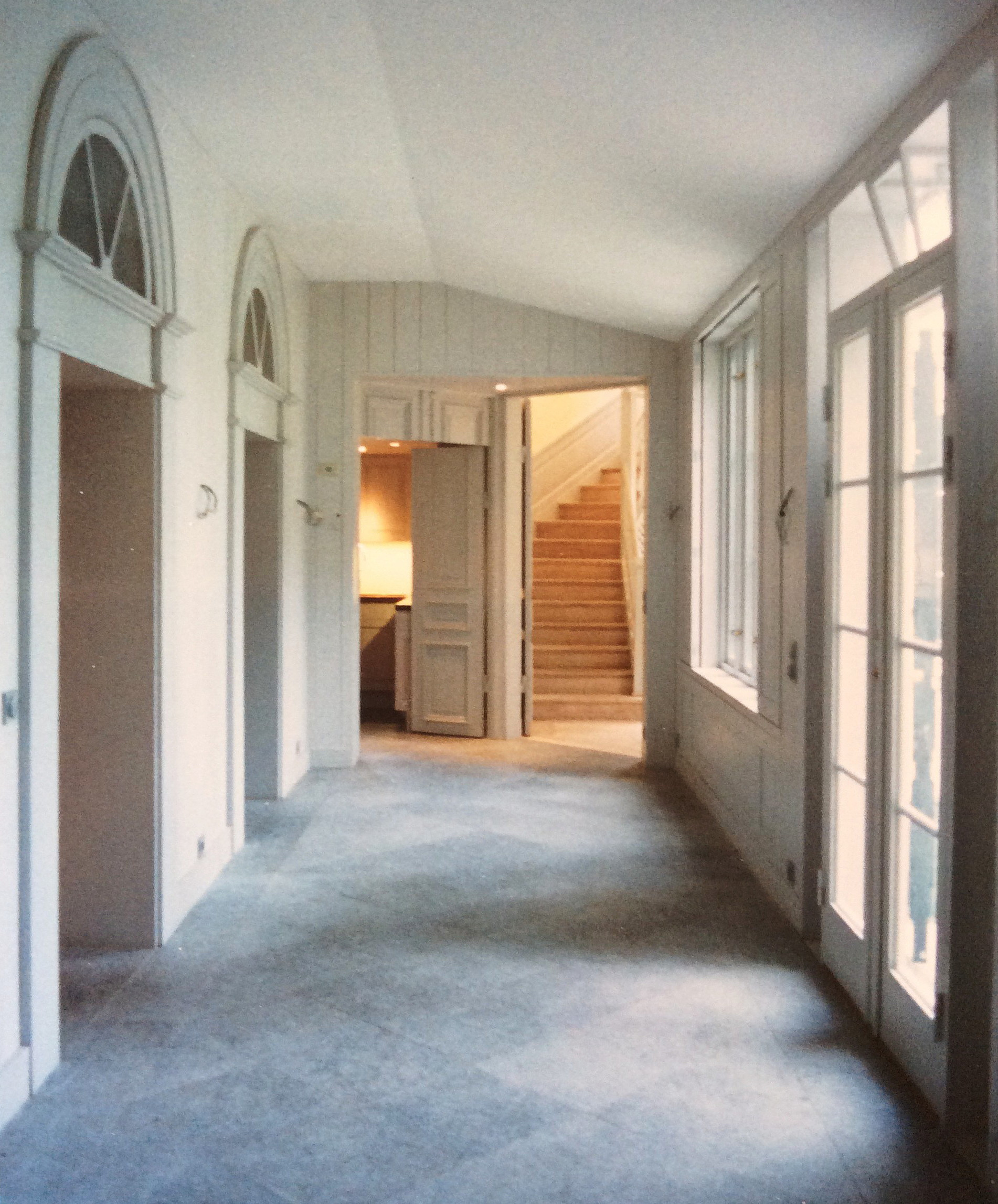 Villa Bergsjölund Kungl. Djurgården Interiör.